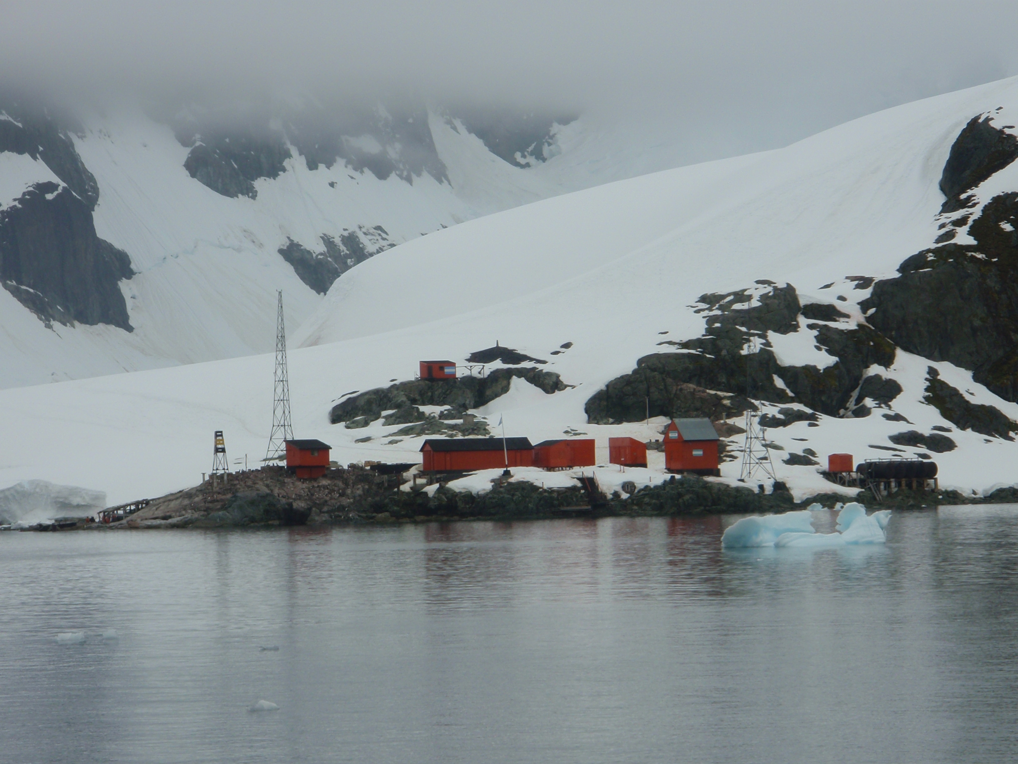 Almirante Brown Antarctic Base